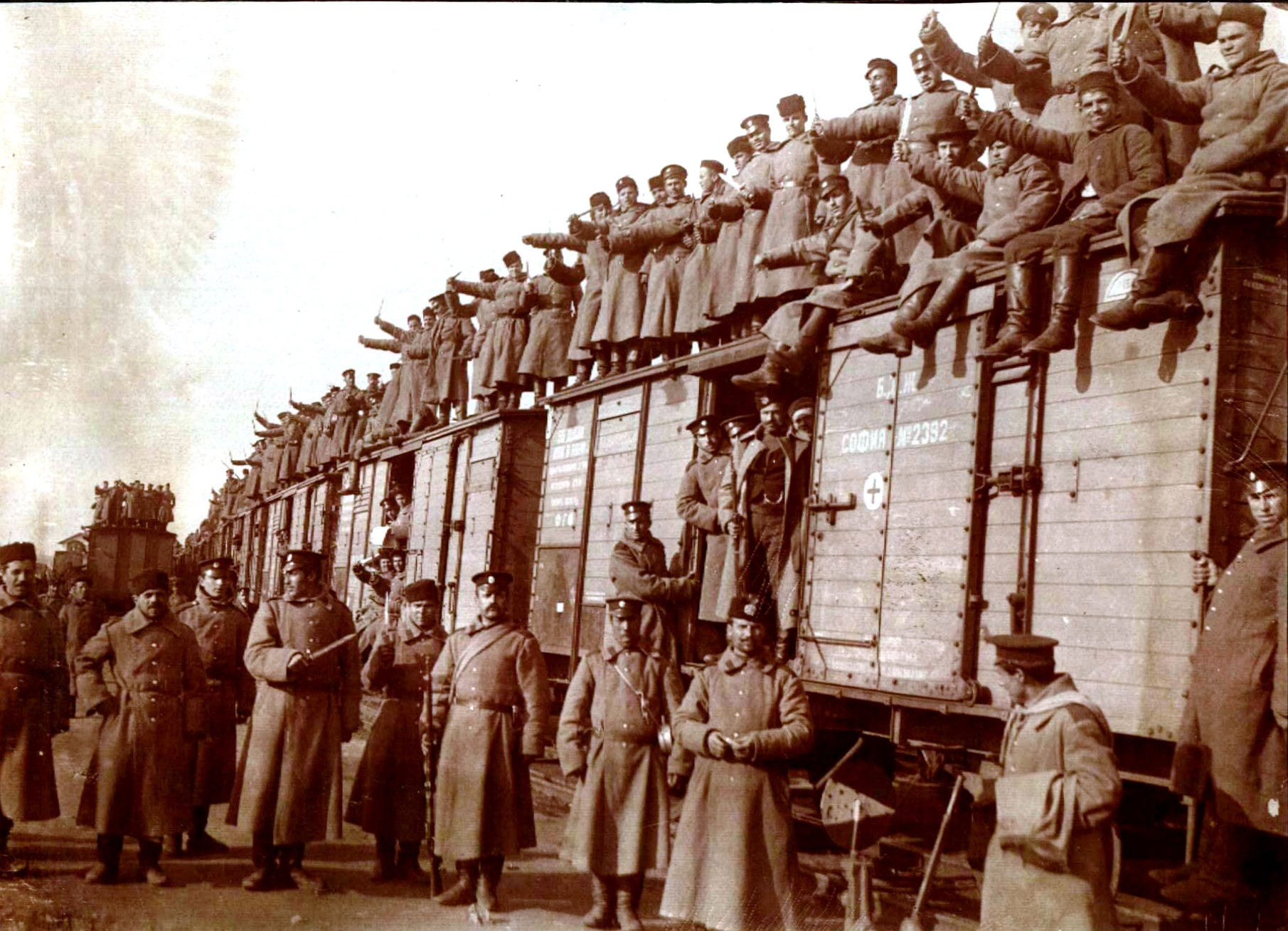 First Balkan War forces of Bulgaria